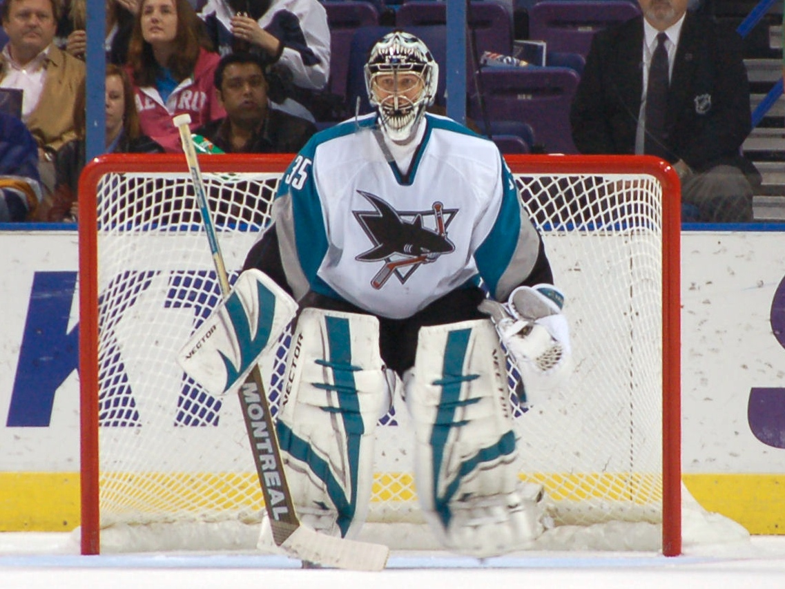 San Jose Sharks goaltender Vesa Toskala in a game against the St. Louis Blues on November 28th, 2006.